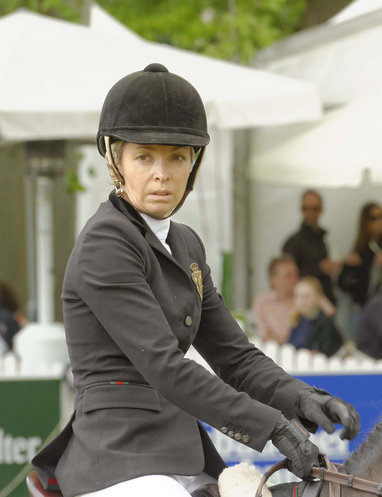 Internationales Pfingstturnier Wiesbaden 2013 The making of this document was supported by the Community-Budget of Wikimedia Germany.